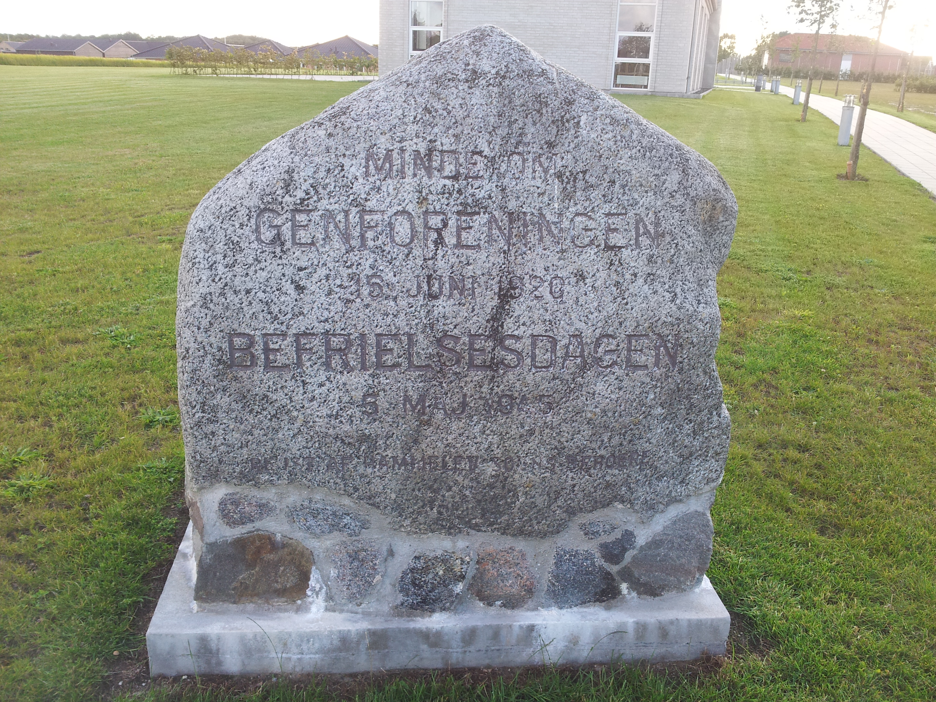 Memorial stone for the reunification of Denmark 1920 and the liberation of Denmark 1945. It stands in Hammelev, Haderslev Kommune, Denmark.